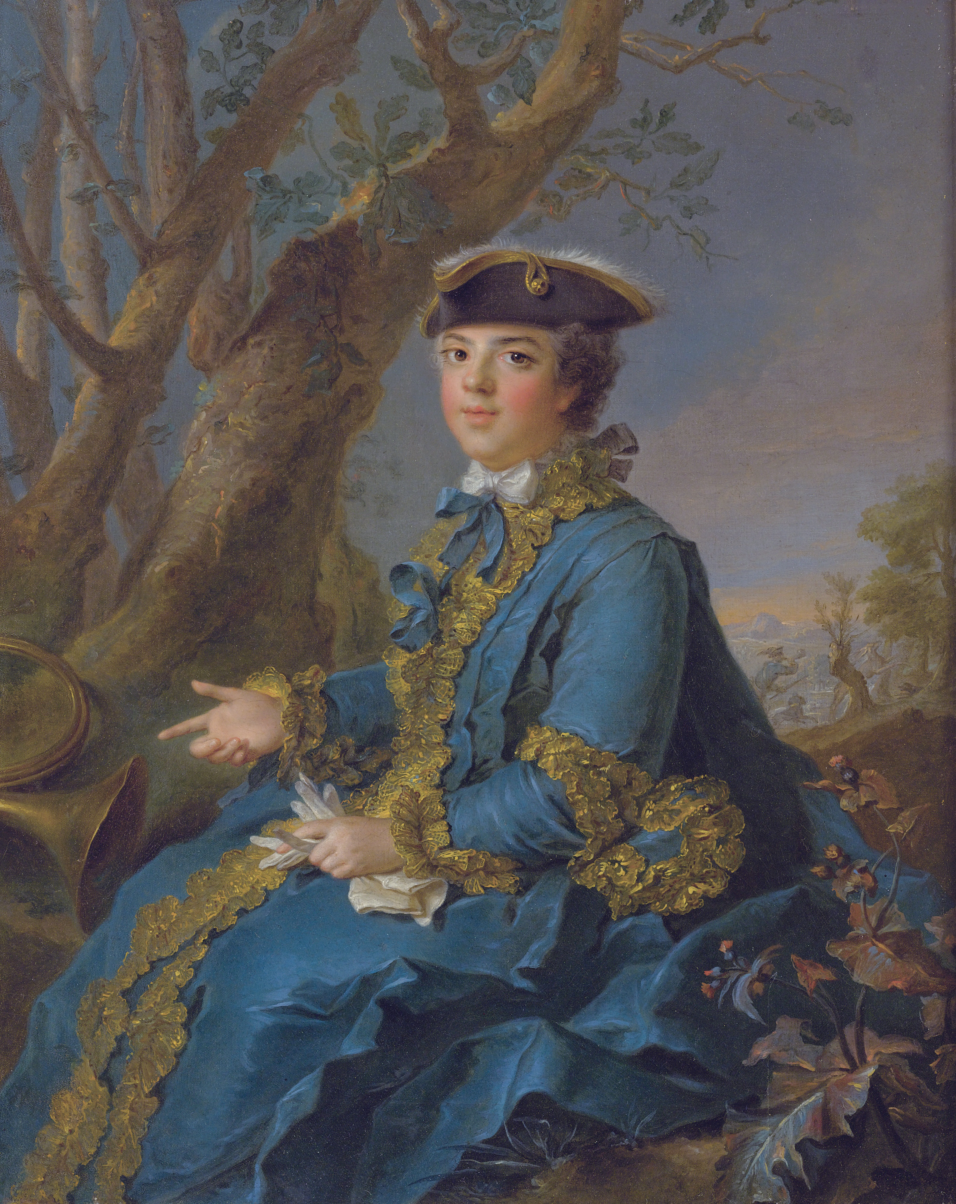 Smaller version of the painting in the Musée National du Chateau de Versailles et du Trianon